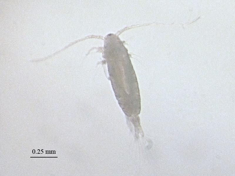 Hydrofront of Dnieper-Bug Liman